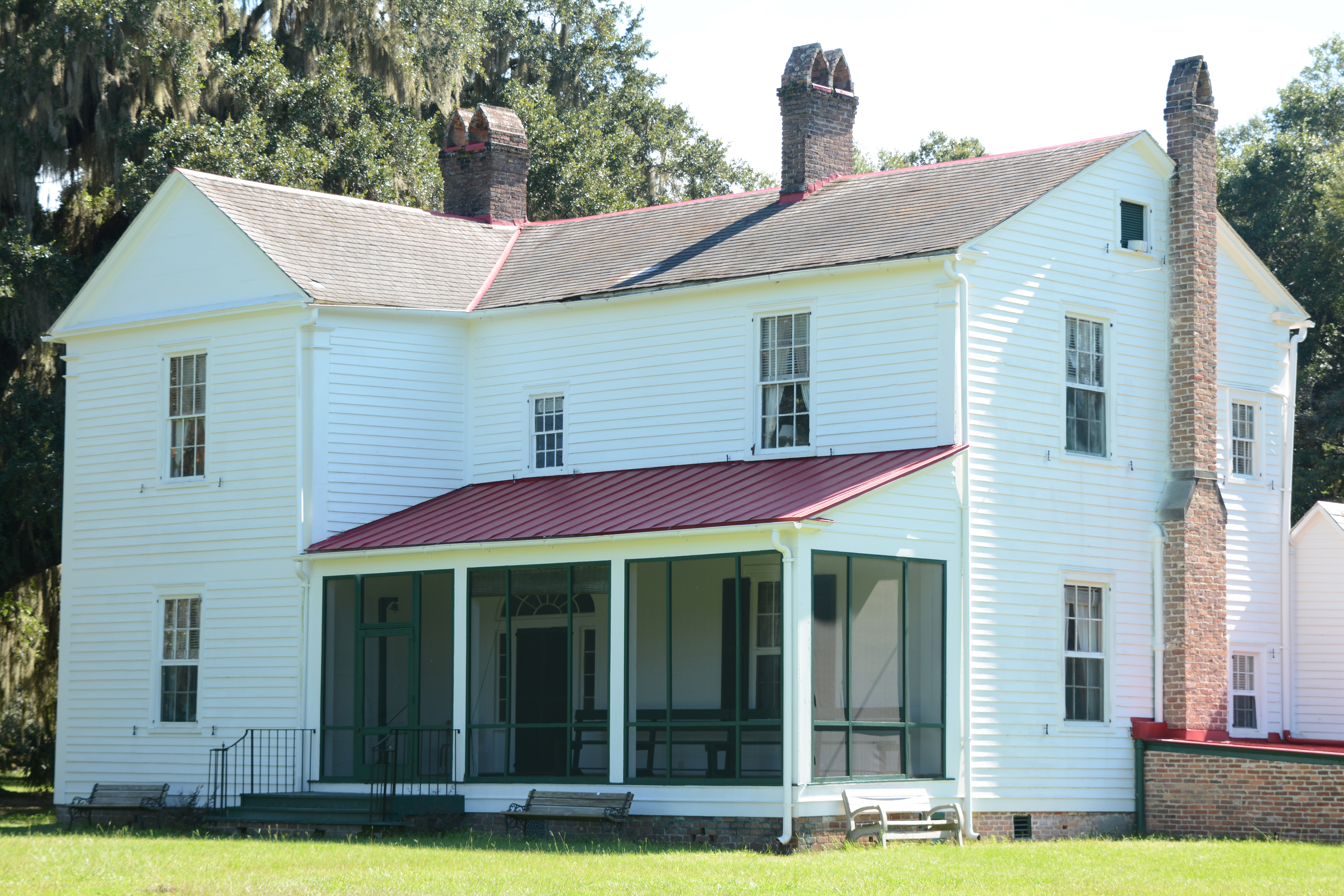 Back view of the main house (1850s) of the Hofwyl-Broadfield Plantation in Glynn County, Georgia, US. It was a rice plantation from 1800-1915.